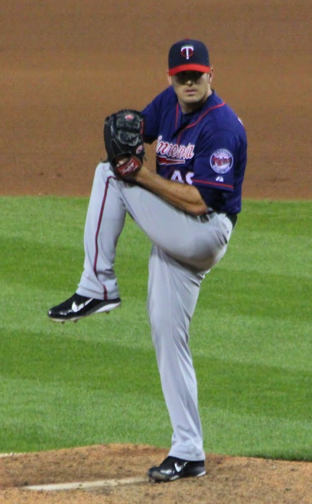 Jeff Manship